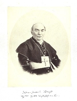 Johann Jakob Kraft (1806-1884), Weihbischof in Trier